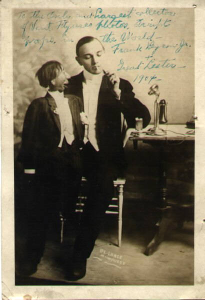 The Great Lester and Frank Byron, Jr. c.1904 - souvenir card